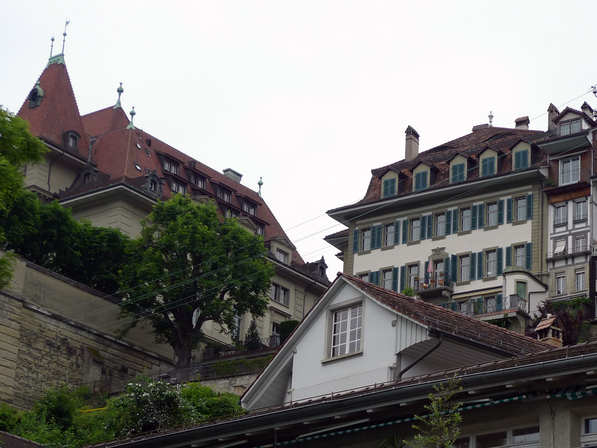 House at Herrengasse 23, Bern, south facade (seen from Aare level, with the Kulturcasino to the left). Built 1690 by Abraham I. Dünz for David Salomon von Wattenwyl, rebuilt around 1756 by Erasmus Ritter in late Louis XV style.